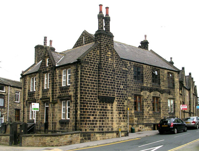 The Old School House - Town Street, Farsley. Now converted into private residences